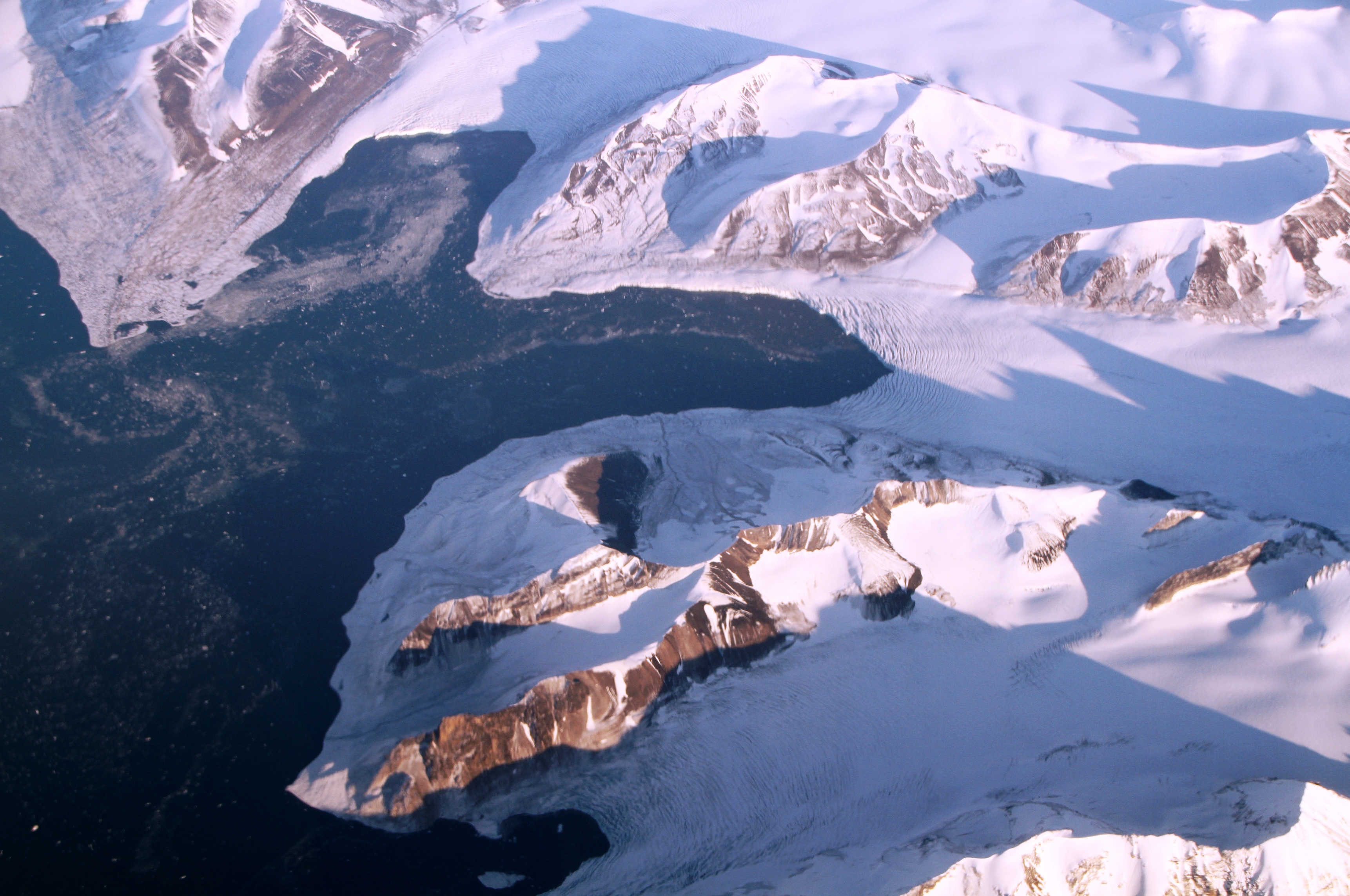 Aerial photo, from the west towards east, of the Sørkapp Land southernmost parts of Spitsbergen, Svalbard.